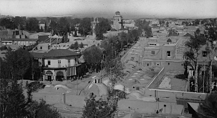 Tehran, a city where Bahá'u'lláh was imprisoned.